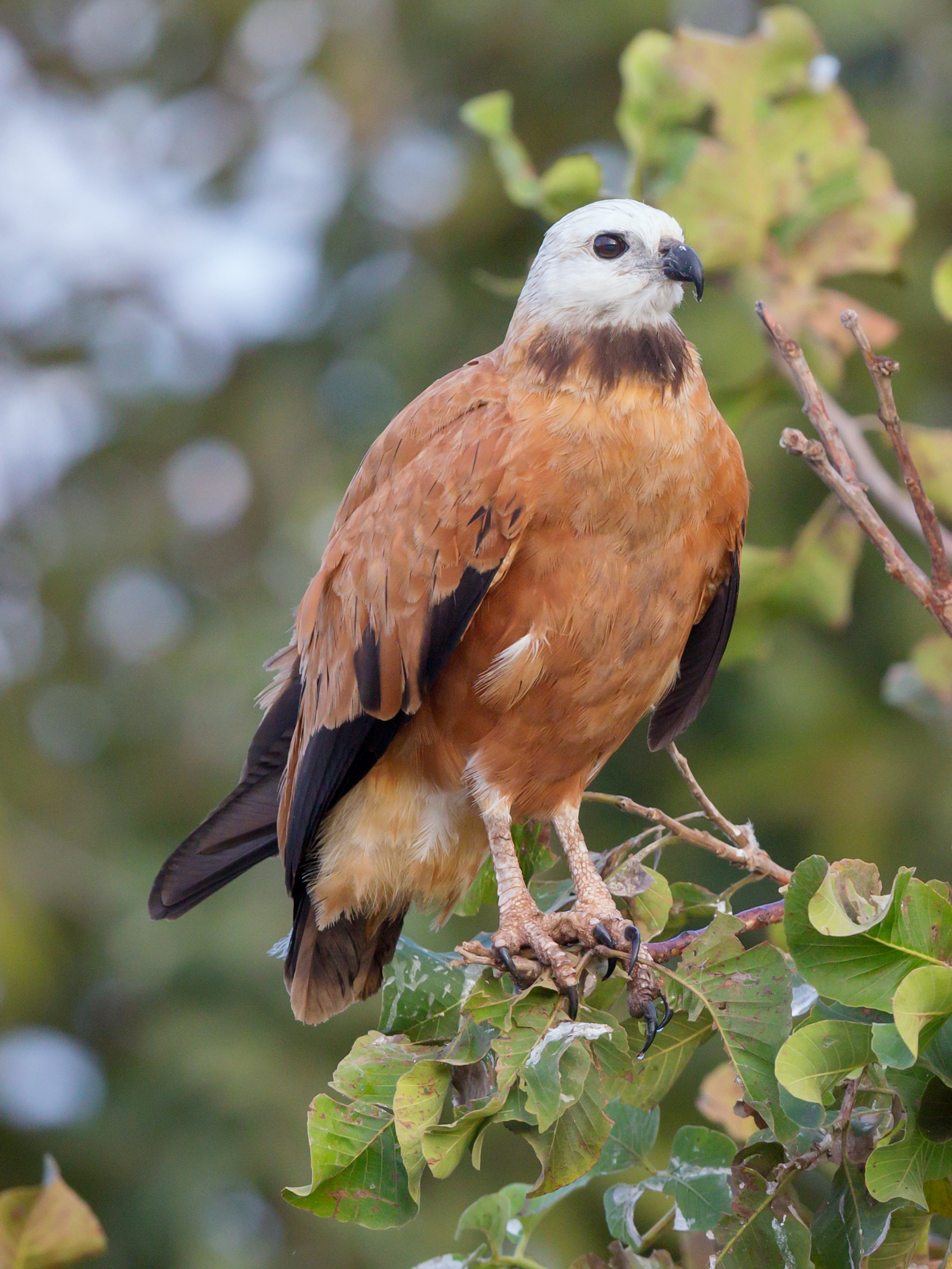 Black-collared Hawk